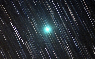 Subject: Comet IRAS-Araki-Alcock; Photographer: Russell E. Milton; Film: Kodacolor 400; Tracking: Celestron-5 telescope.